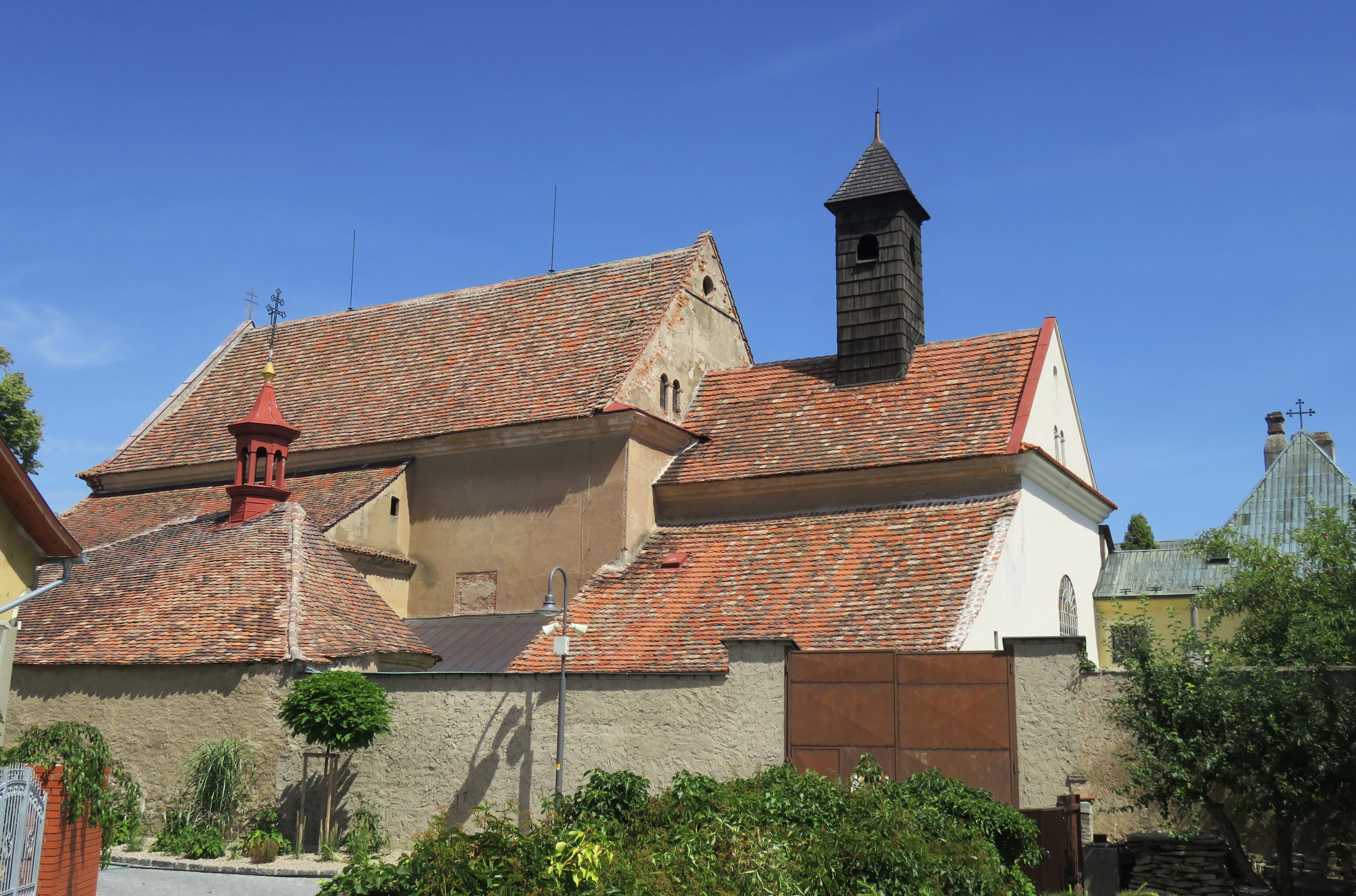 Church of the Nativity of Christ with former Capuchin monastery in Opočno